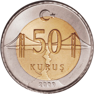 50 kuruş obverse